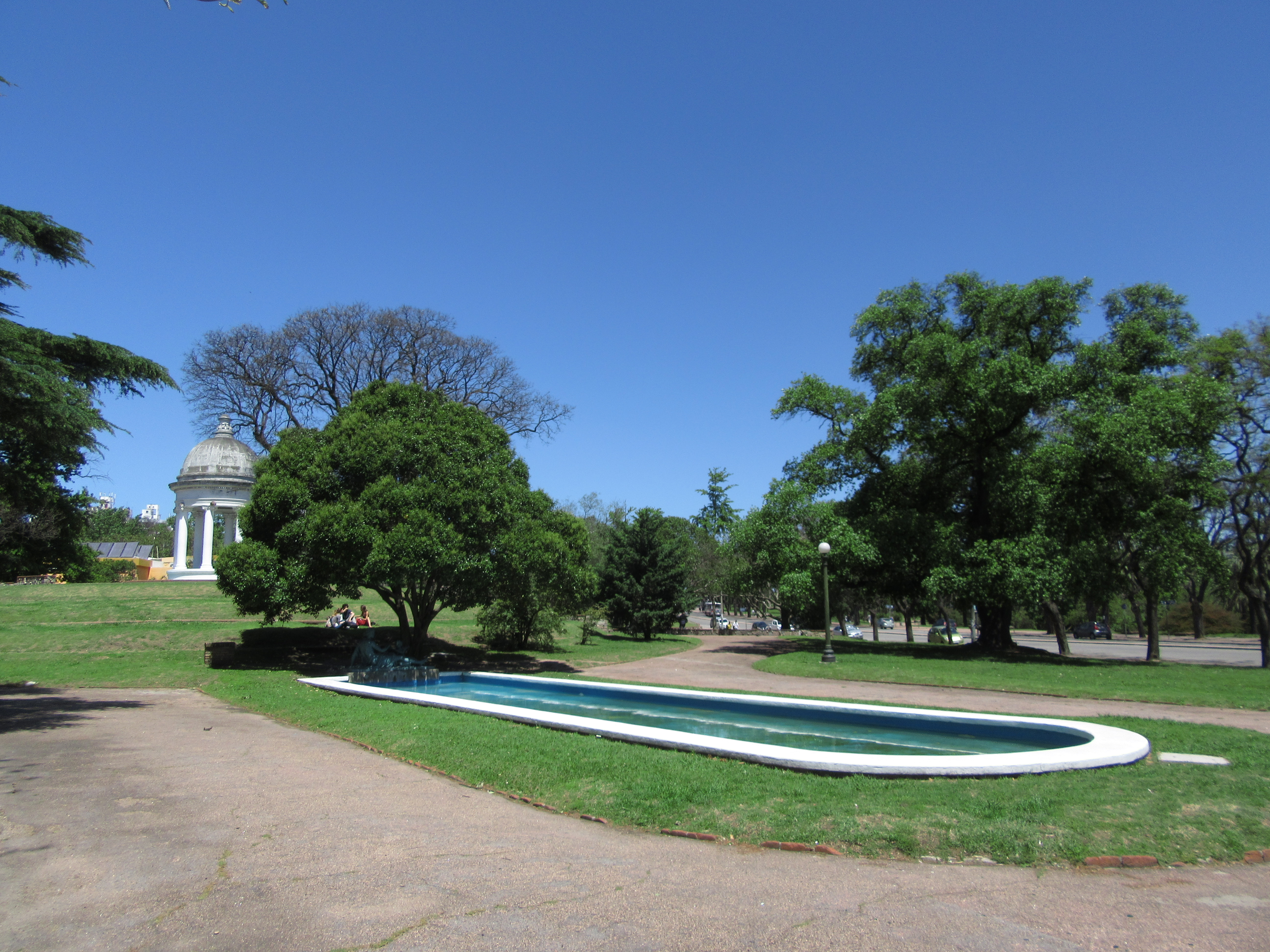 Montevideo